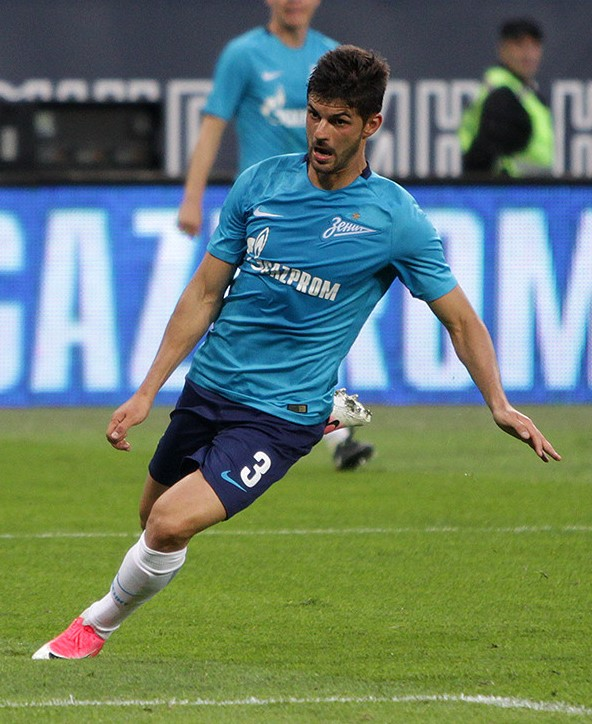 Denis Terentyev